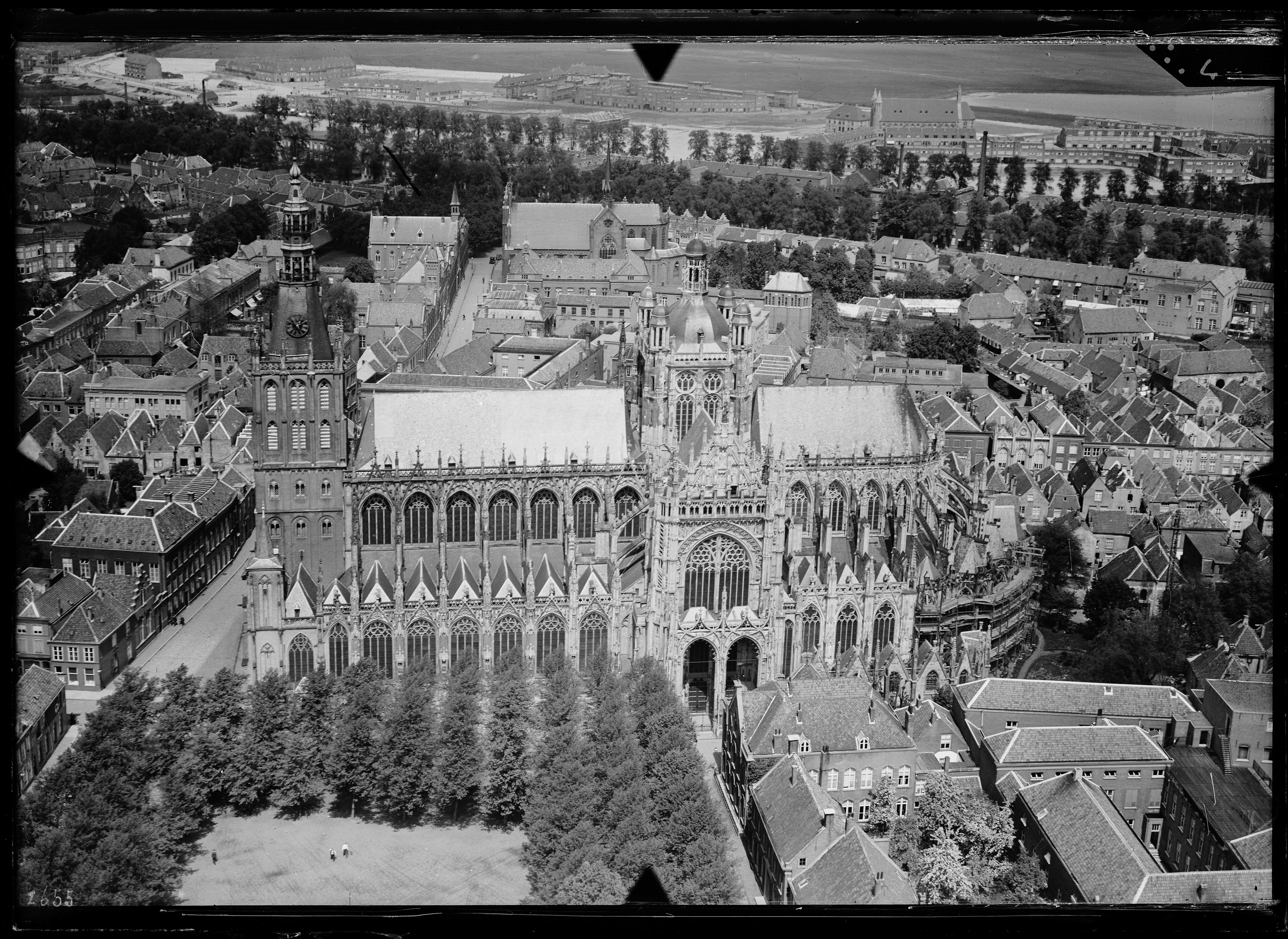 Aerial photograph of 's-Hertogenbosch, The Netherlands